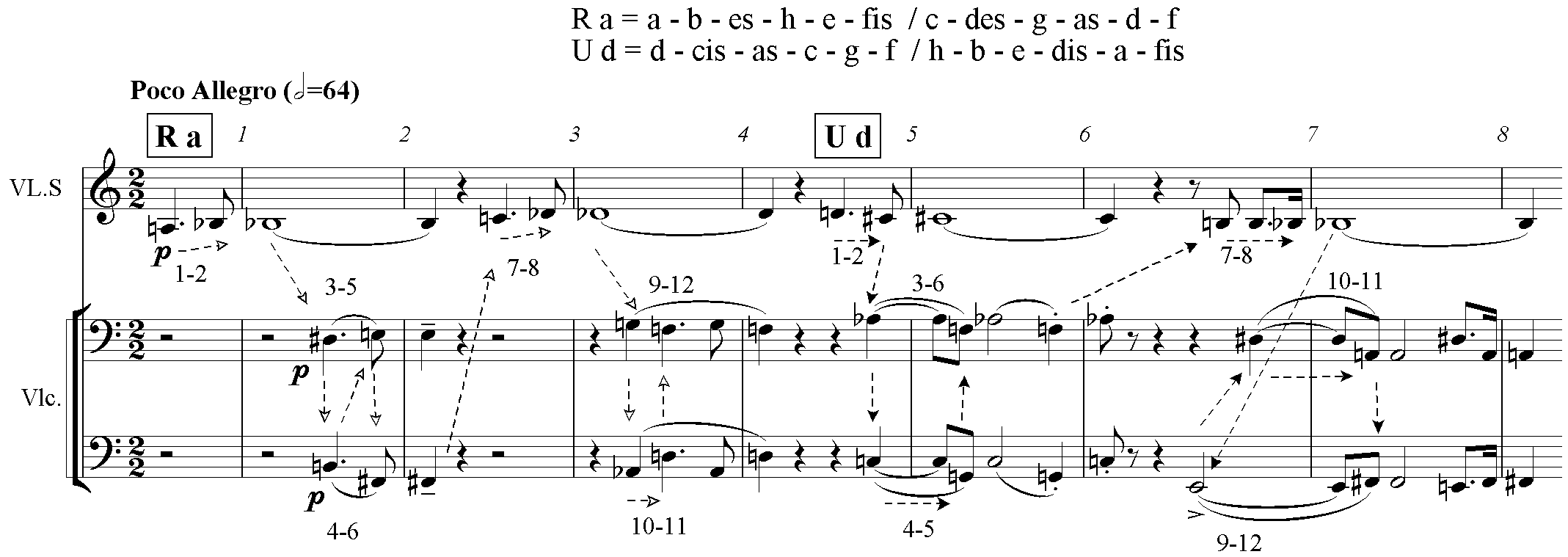 Schoenberg Violin Concert